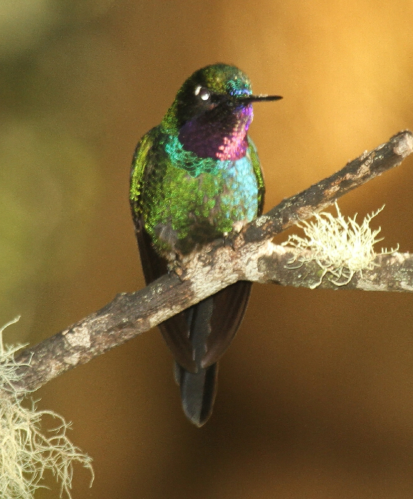 Utuana Reserve - Ecuador